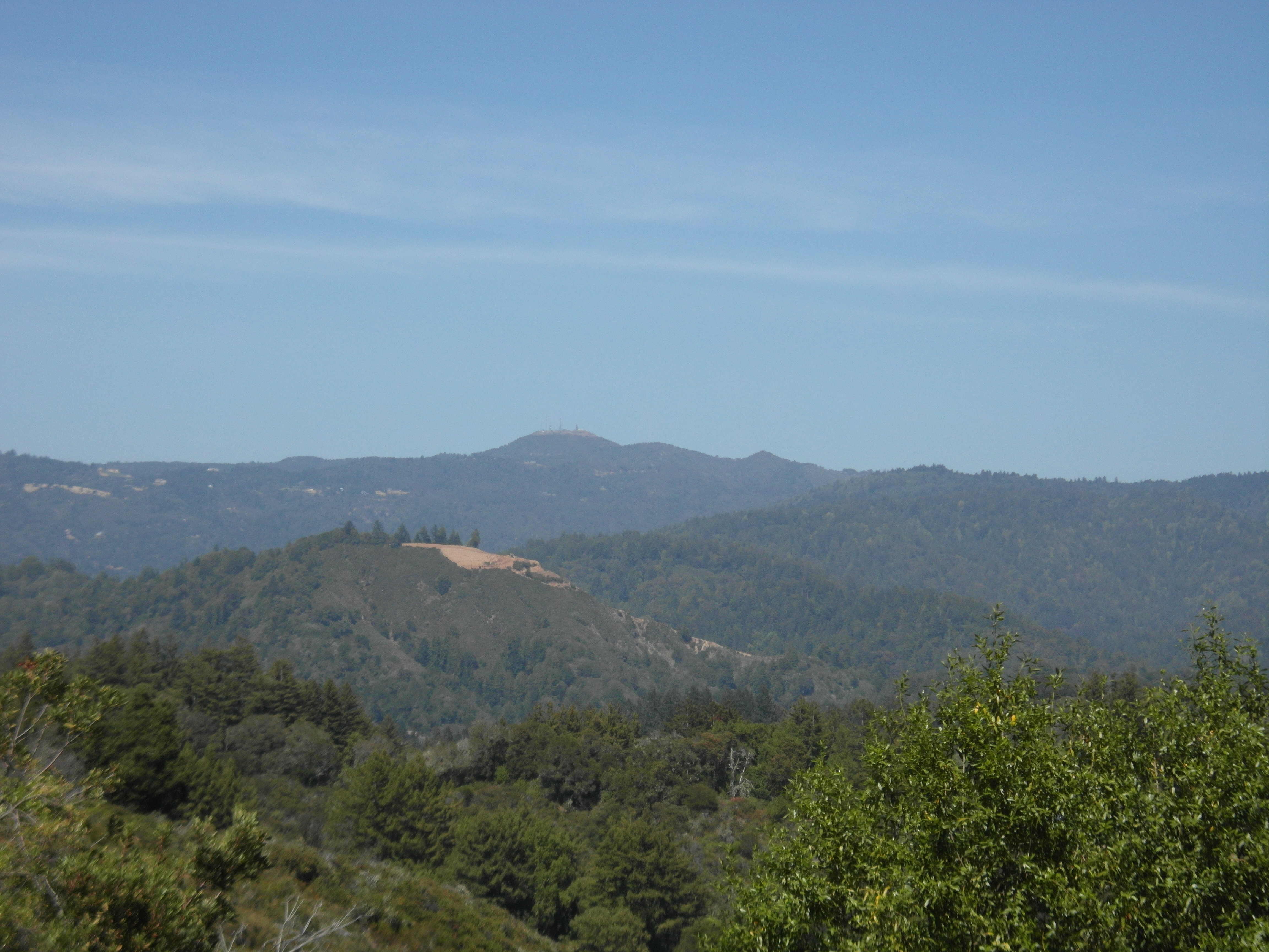 Loma Prieta Peak, as seen from near Soquel.